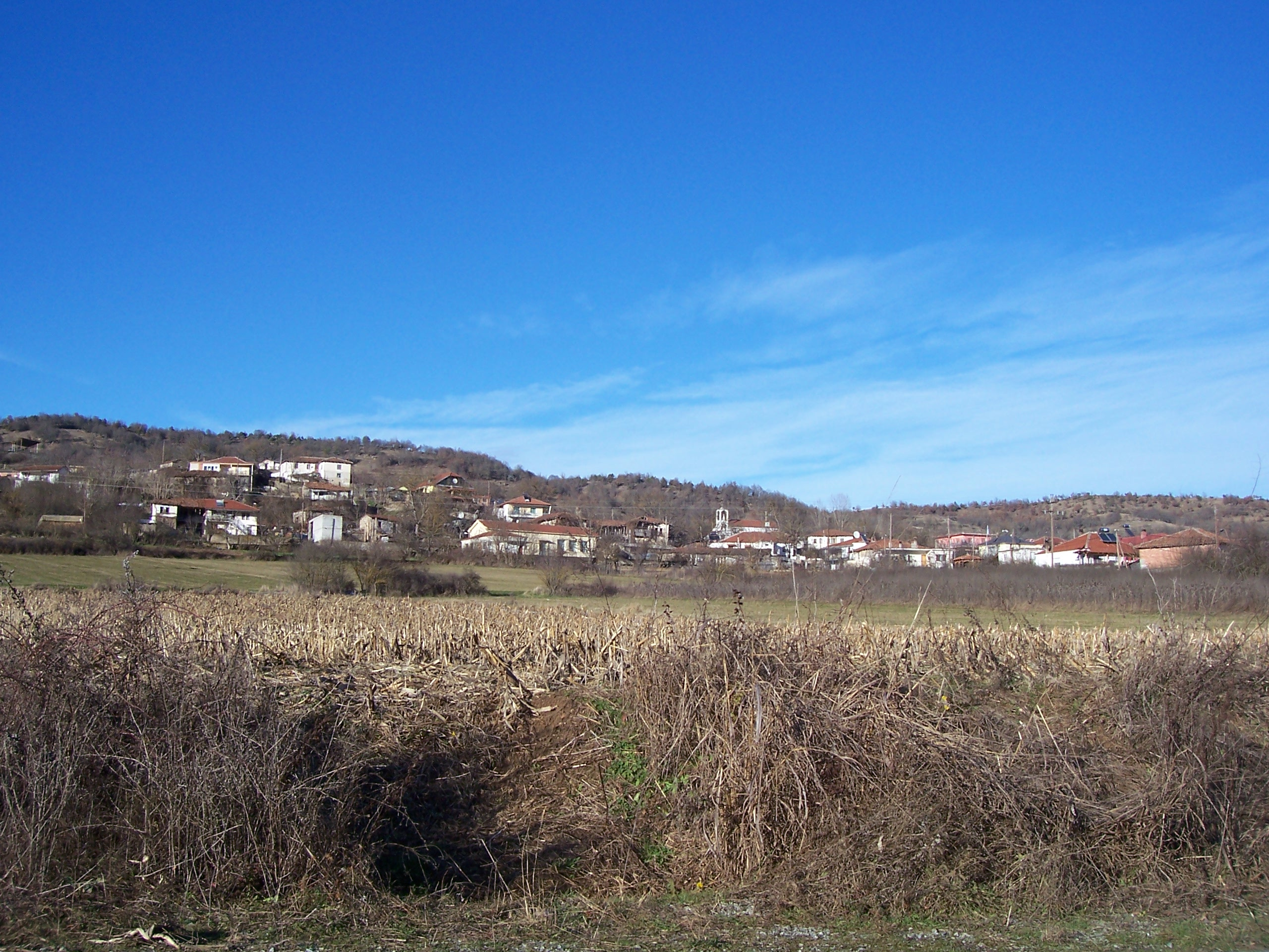 The village of Mikrokleisoura (Dolna Lakavitsa) in Greece.